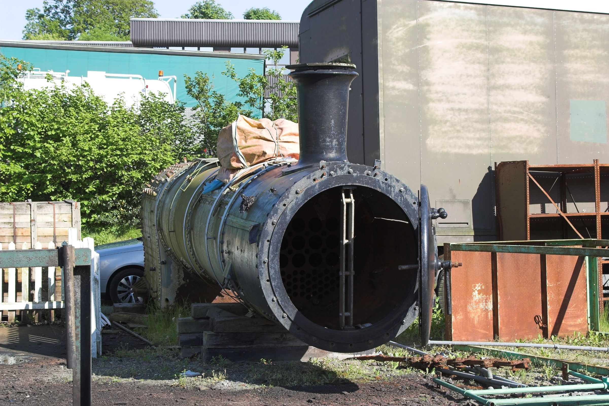 Boiler of NG15 No.134 at Dinas yard, prepared for future restoration.